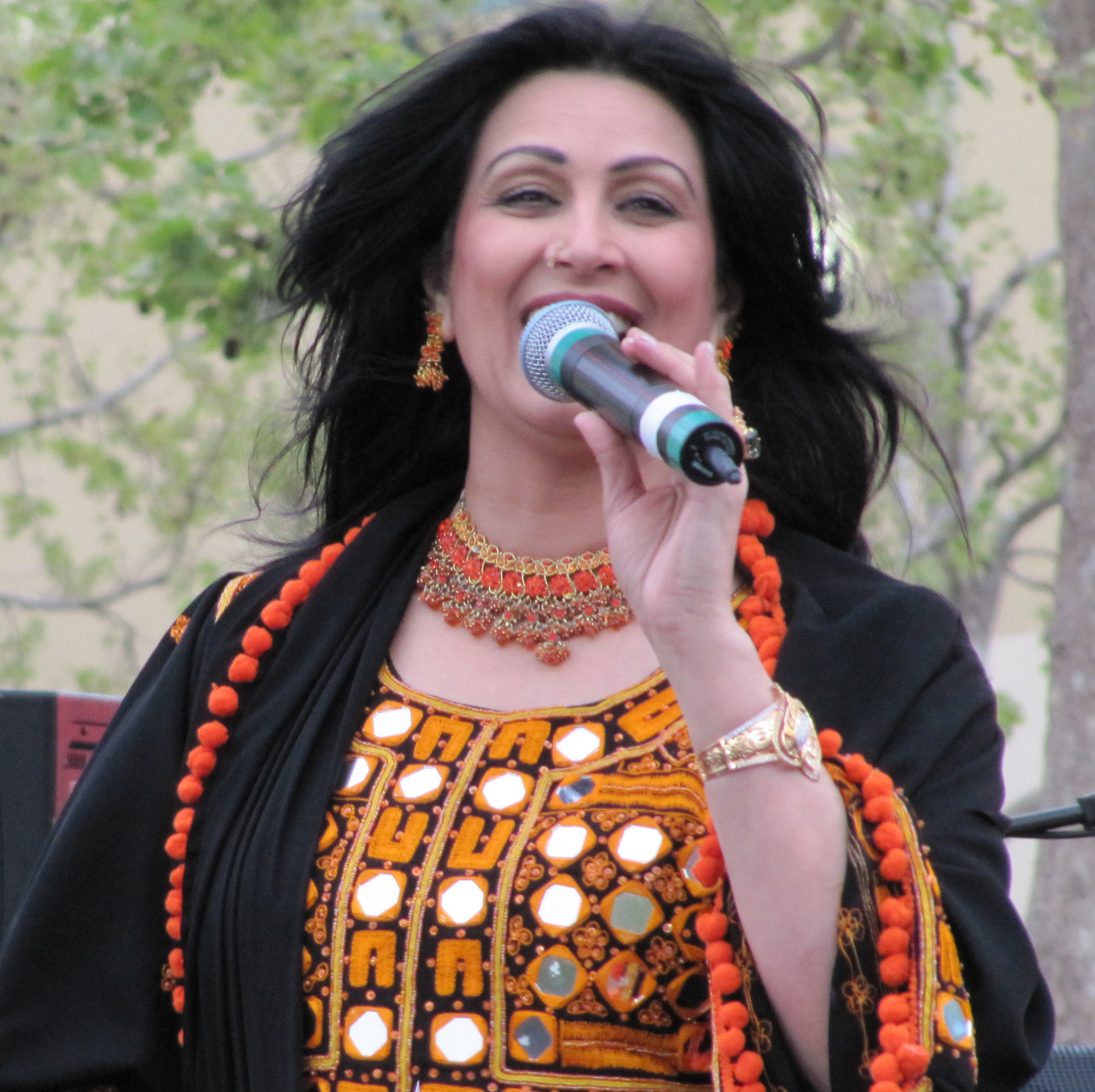 Naghma at the Nowroz Mela in Pomona Fairplex